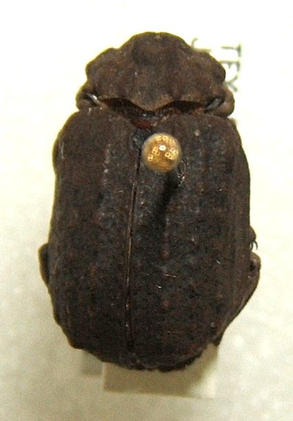 Omorgus fuliginosus adult taken by Shawn Hanrahan at the Texas A&M University Insect Collection in College Station, Texas. cropped and slightly enhanced from Omorgus fuliginosus sjh.jpg.